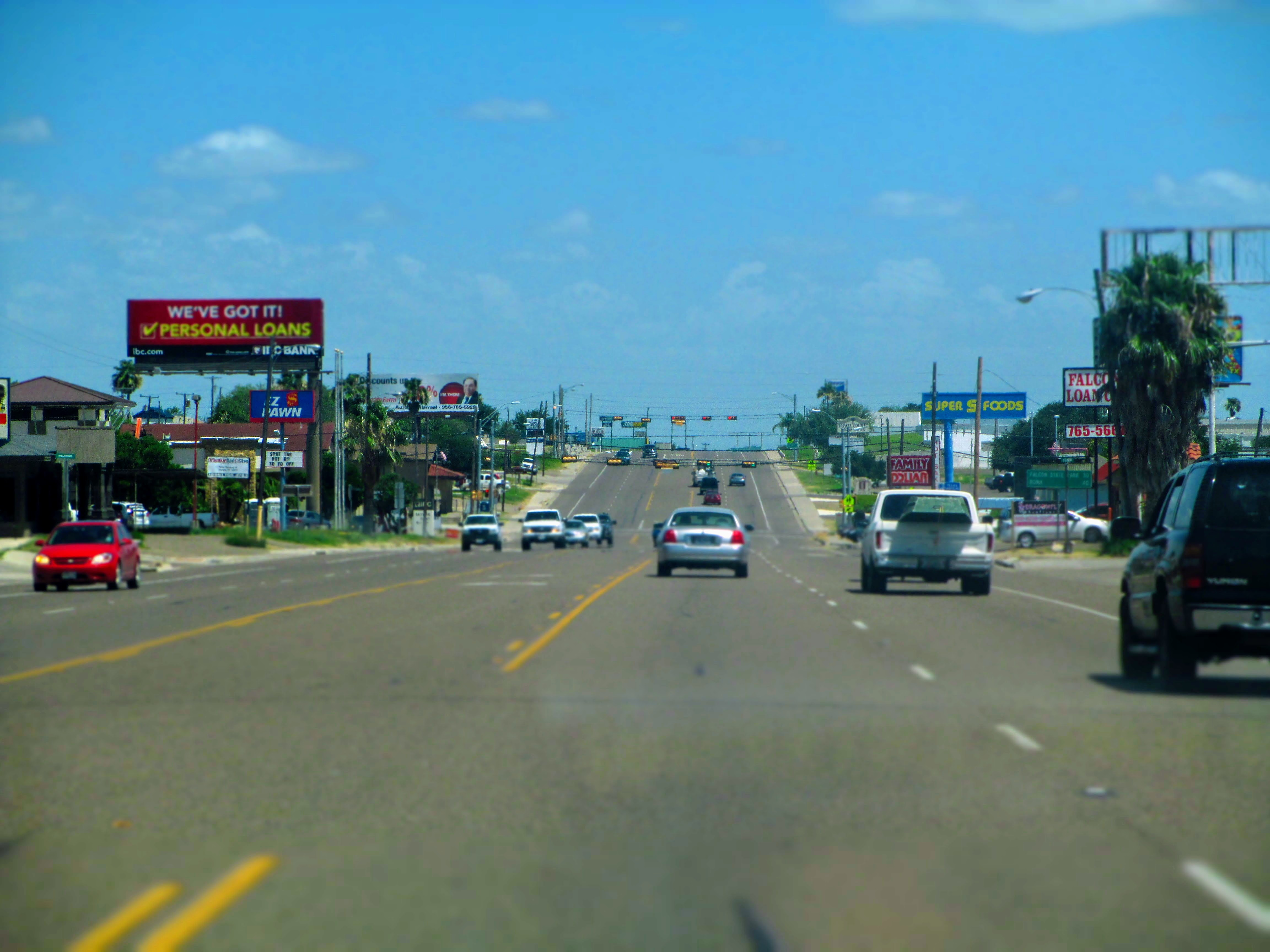 Going South on Zapata HWY 83